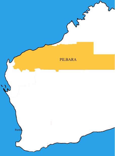 Pilbara in Western Australia, i made the image. My son Richard Hekimian (Archeologist) observing in the Pilbara region starting from 4th of November 2009,in a hard climate condition but enjoying every moment of it.